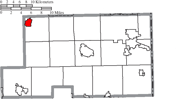 Map of the municipal and township boundaries of Mahoning County, Ohio, United States, as of the 2000 census, with the location of the village of Craig Beach highlighted. Township borders are shown only in unincorporated areas in order to differentiate incorporated and unincorporated areas more clearly.